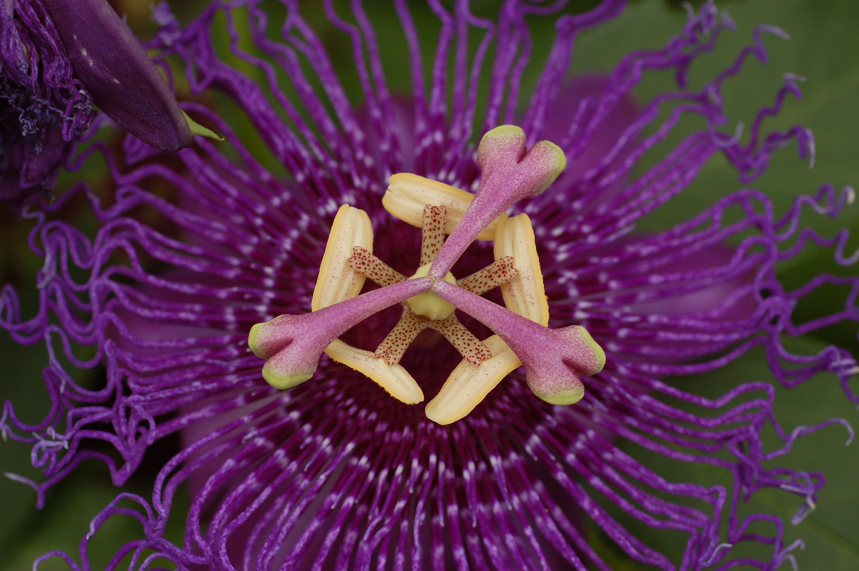 Passiflora 'Incense', a hybrid of Passiflora incarnata and Passiflora cincinnata A picture of Passion Floweren (Passiflora en ). Photo taken at the Chanticleer Garden.